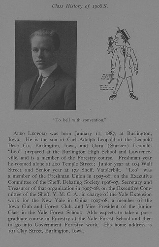 Photograph and description of Aldo Leopold, member of the Class of 1908 at Yale's Sheffield Scientific School, New Haven, Connecticut. Image courtesy of the Yale University Manuscripts & Archives Digital Images Database. Retouched by MarmadukePercy.